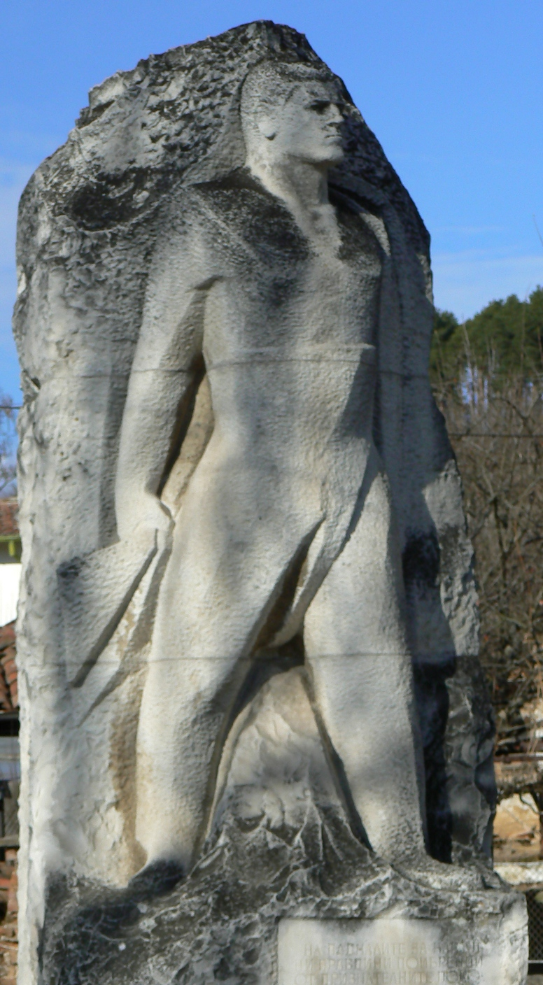 Monument of the war victims from village Poibrene, Bulgaria